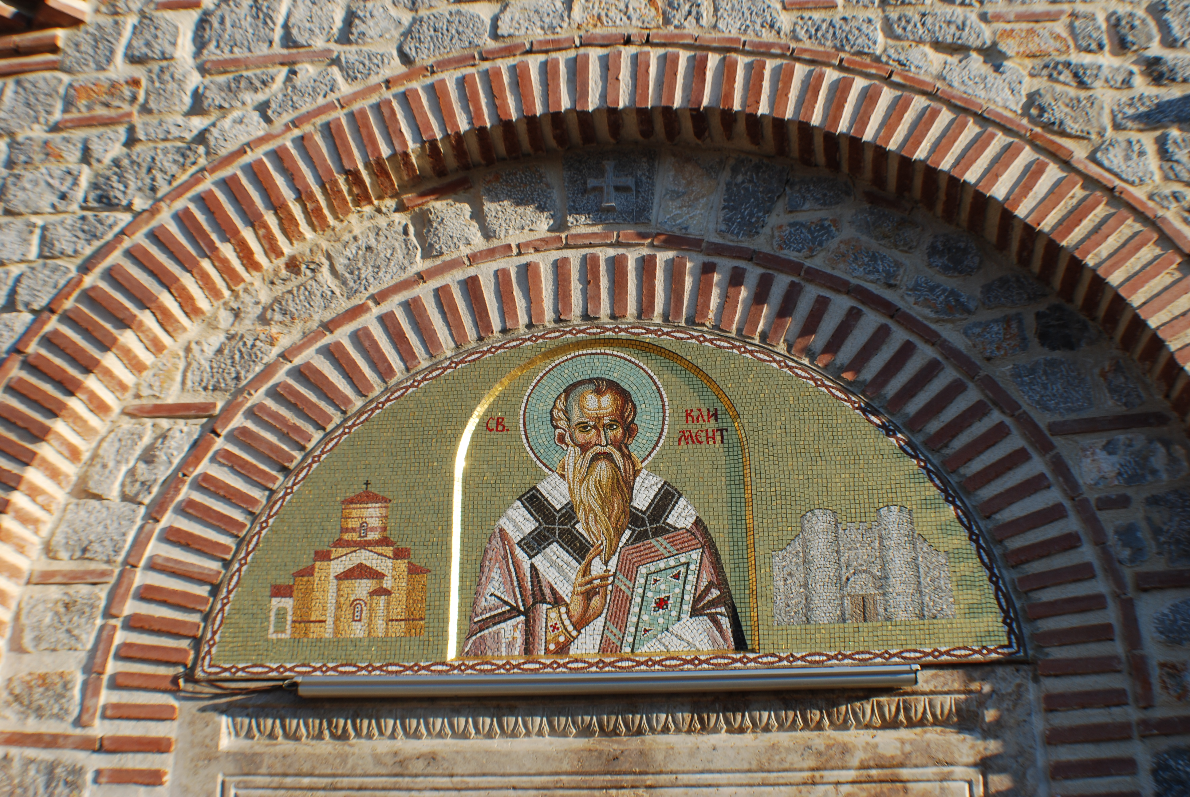 The Church of St. Kliment & St. Pantelejmon at Plaošnik in Ohrid, Macedonia